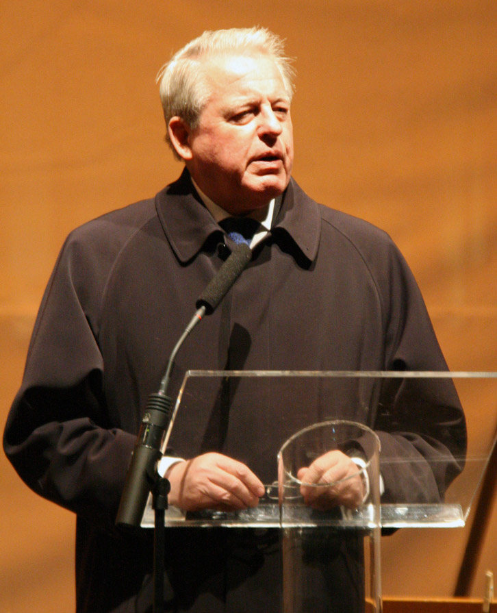 Franz Vranitzky during his speech at the "Nacht des Schweigens" ("Night of Silence") at the Heldenplatz in Vienna. In remembrance of the "Anschluss", the annexion of Austria by Nazi Germany 70 years ago, 80.000 candles were lit for the Austrian victims murdered in the years from 1938 to 1945 and their names were projected on four screens during the whole night.